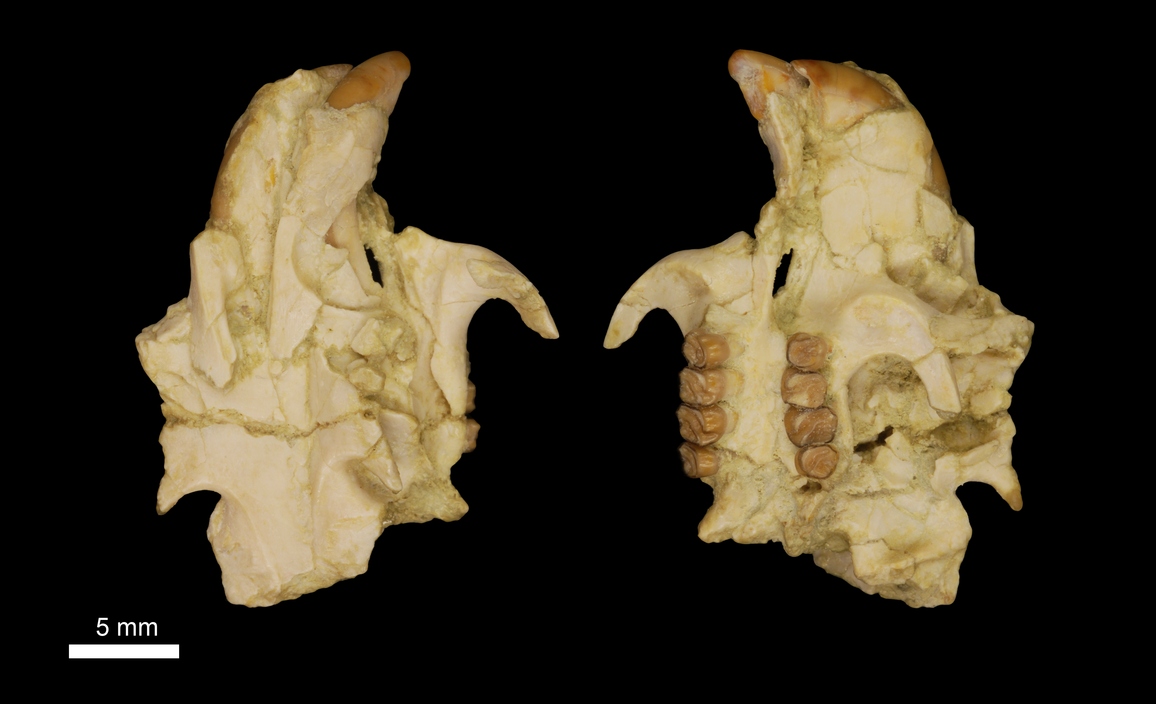 Gaudeamus skull of Gaudeamus aslius DPC 16539; left: dorsal view; right: ventral view; Locality L-41, lower sequence of the Jebel Qatrani Formation, Fayum, Egypt; Upper Eocene